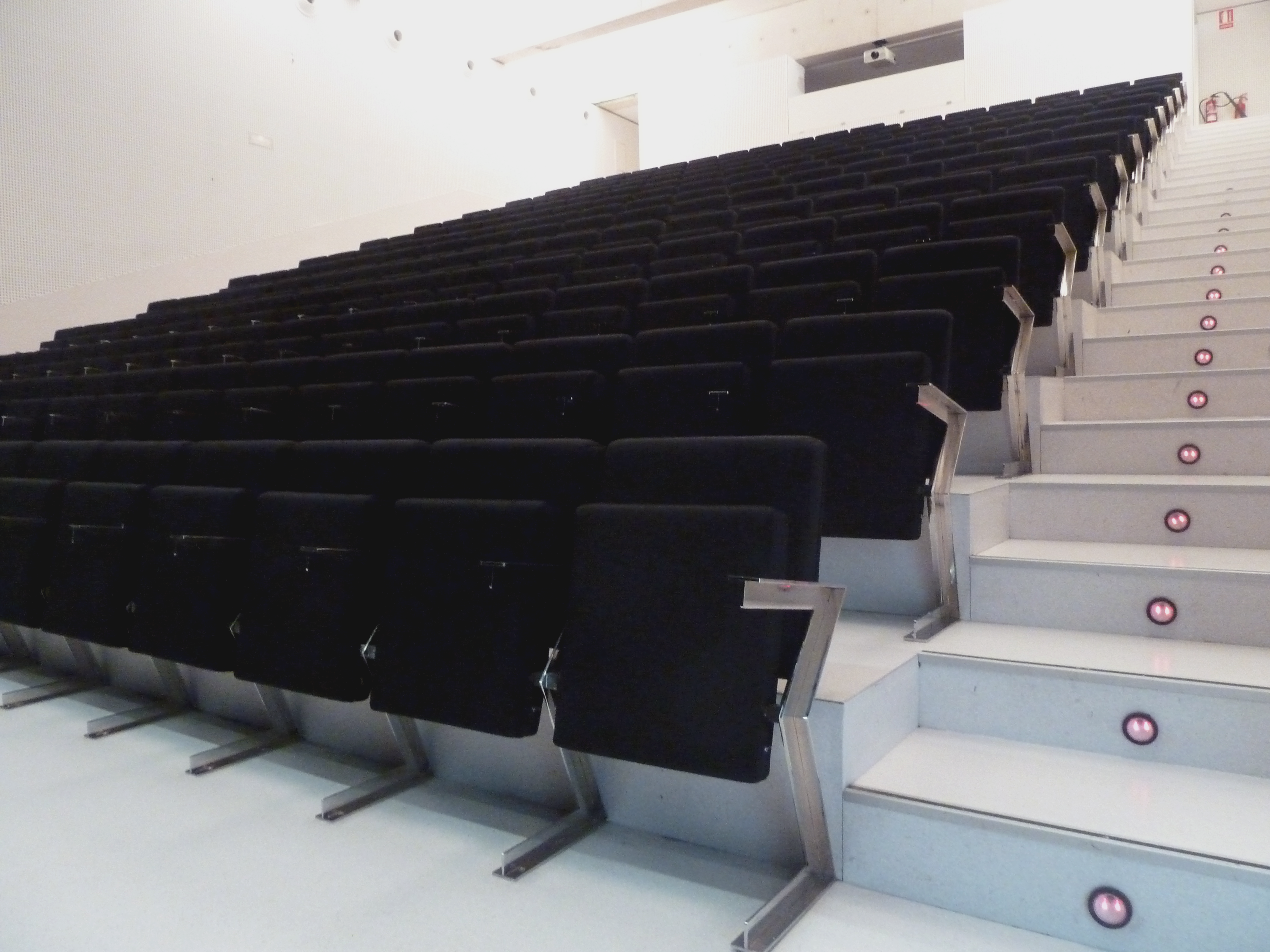 It has a capacity of 214 seats and is equipped with a multifunctional stage aimed at different types of representations, besides serving for film screenings. It has a control booth and dressing rooms. The performances are quite varied including plays, dance performances, films and concerts.